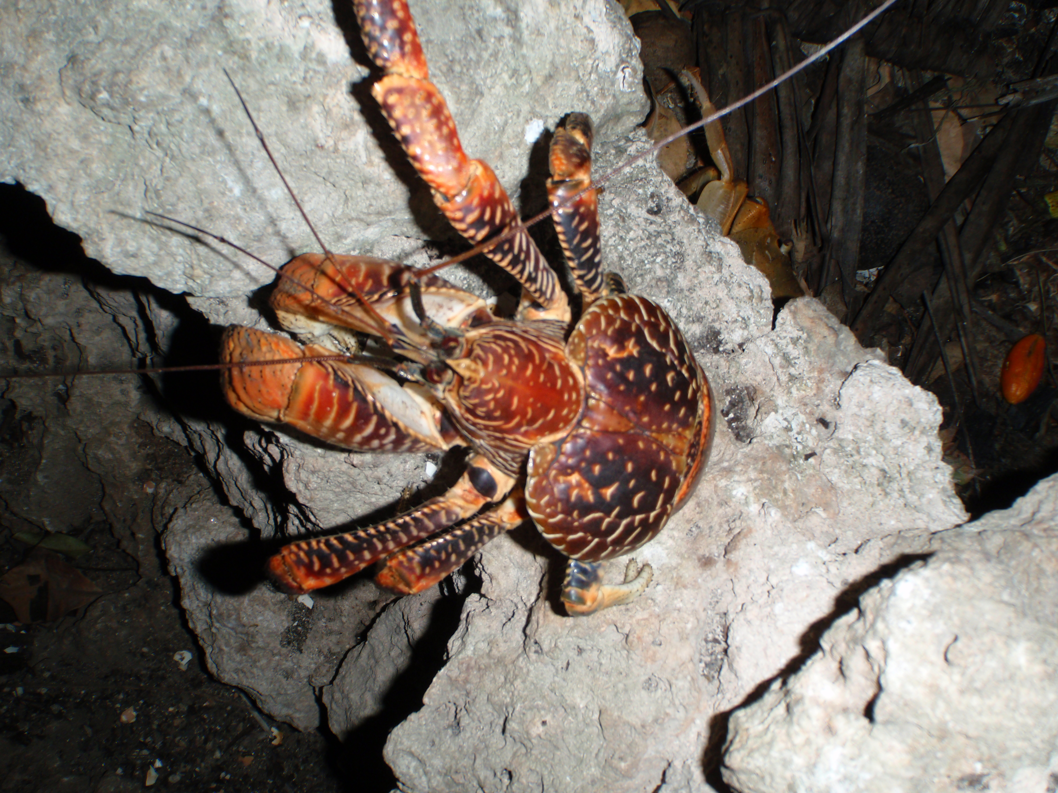 Birgus Latro - a.k.a the coconut crab - is the largest land-living arthropod in the world.